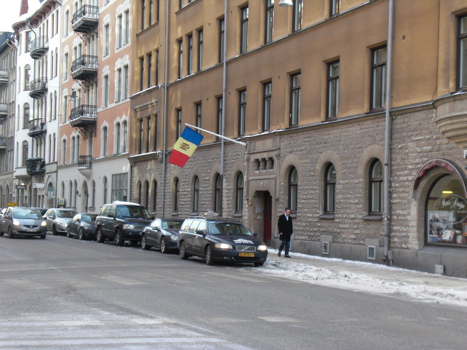 Moldovan embassy in Stockholm, Sweden.